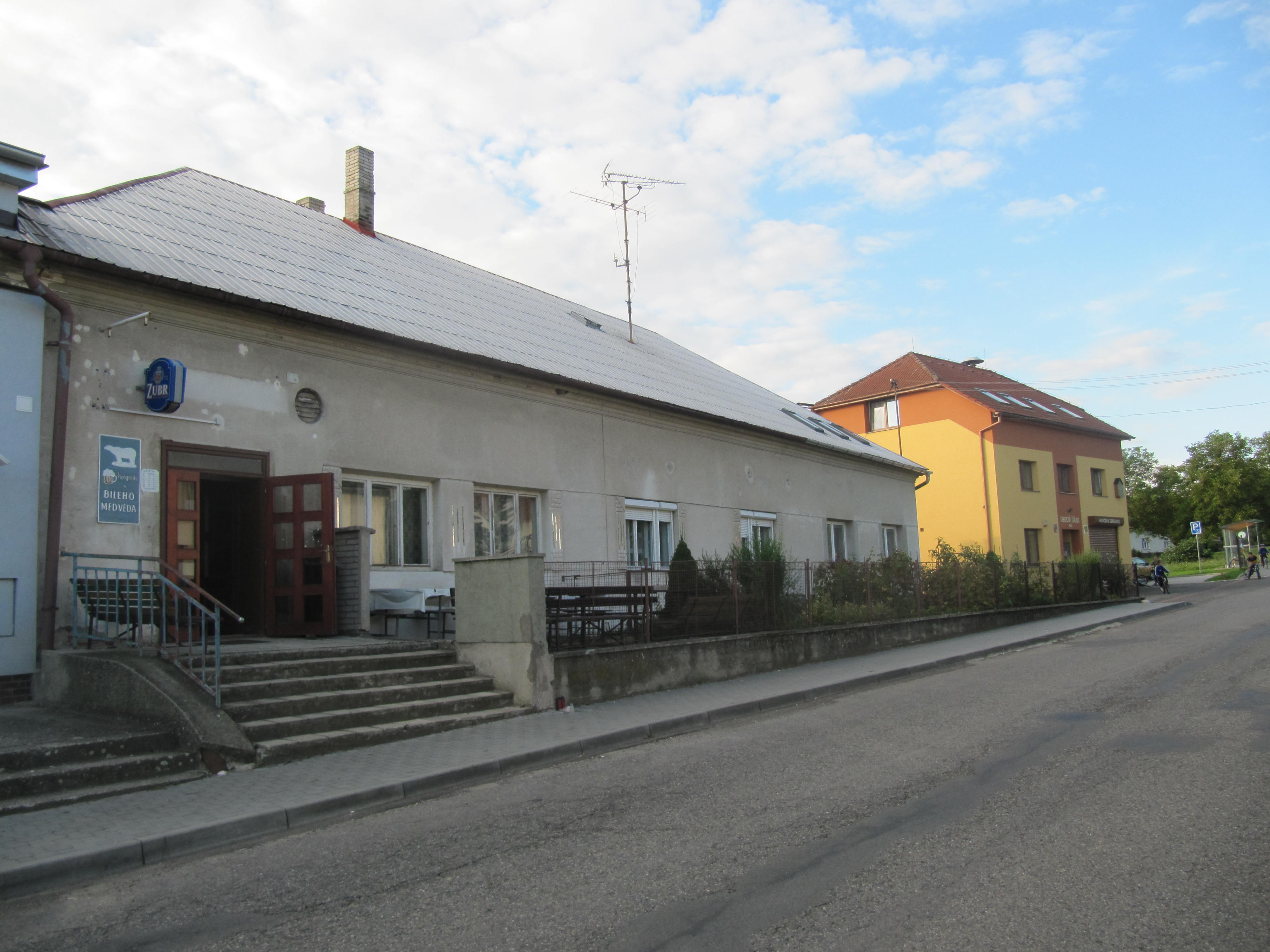 Oldřichovice in Zlín District, Czech Republic.Pub and municipal office.